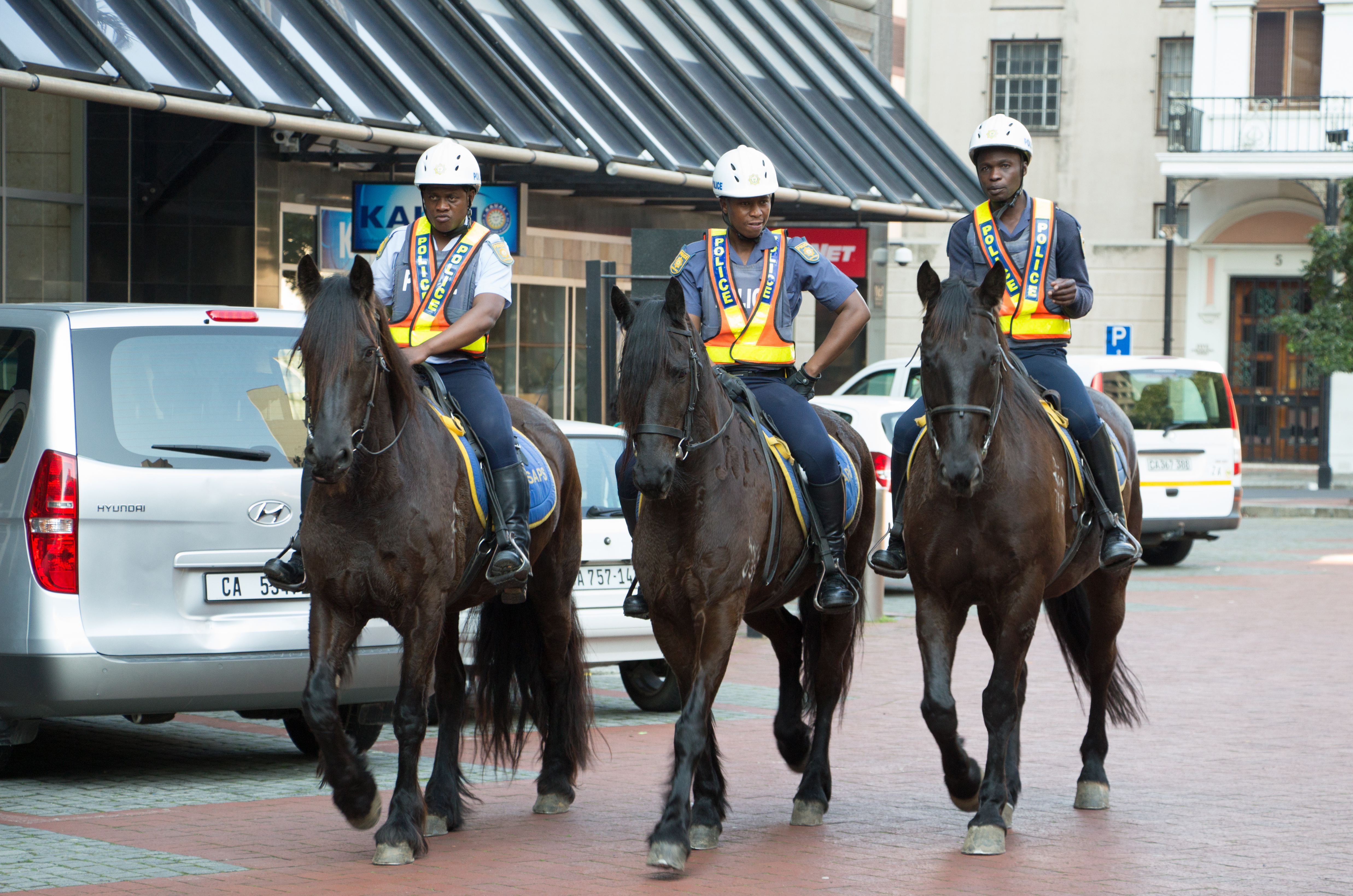 Mounted police, Spin Street, Cape Town, South Africa